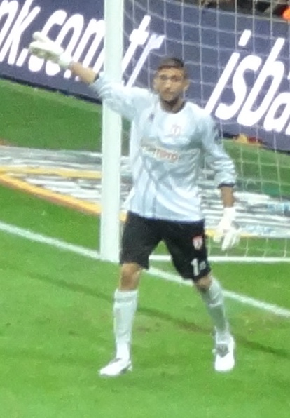 Ertuğrul @ GS match